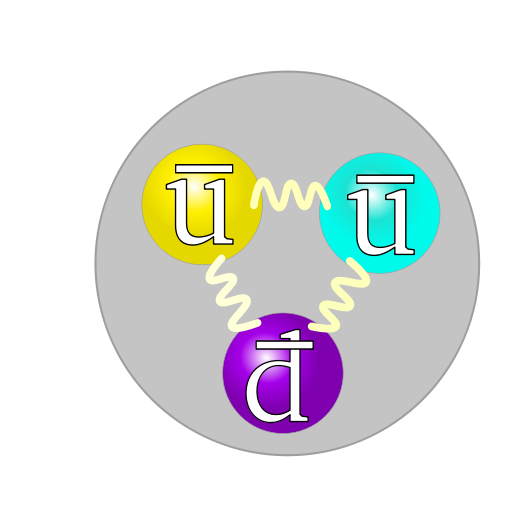 Quark structure of the anti-proton showing an anti-(blue up) quark, an anti-(red up) quark and an anti(green down) quark mediated by gluons.